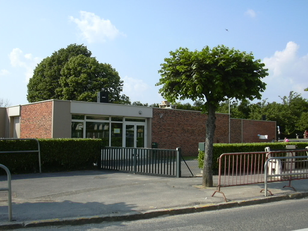 Kindergarten in Rebais, Seine-et-Marne, France